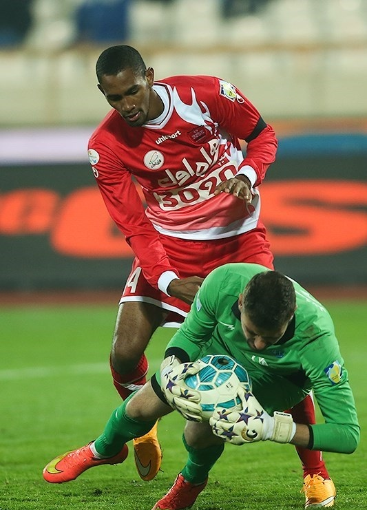 Jerry Bengtson playing for Persepolis in match against Gostaresh, Azadi Stadium, Tehran